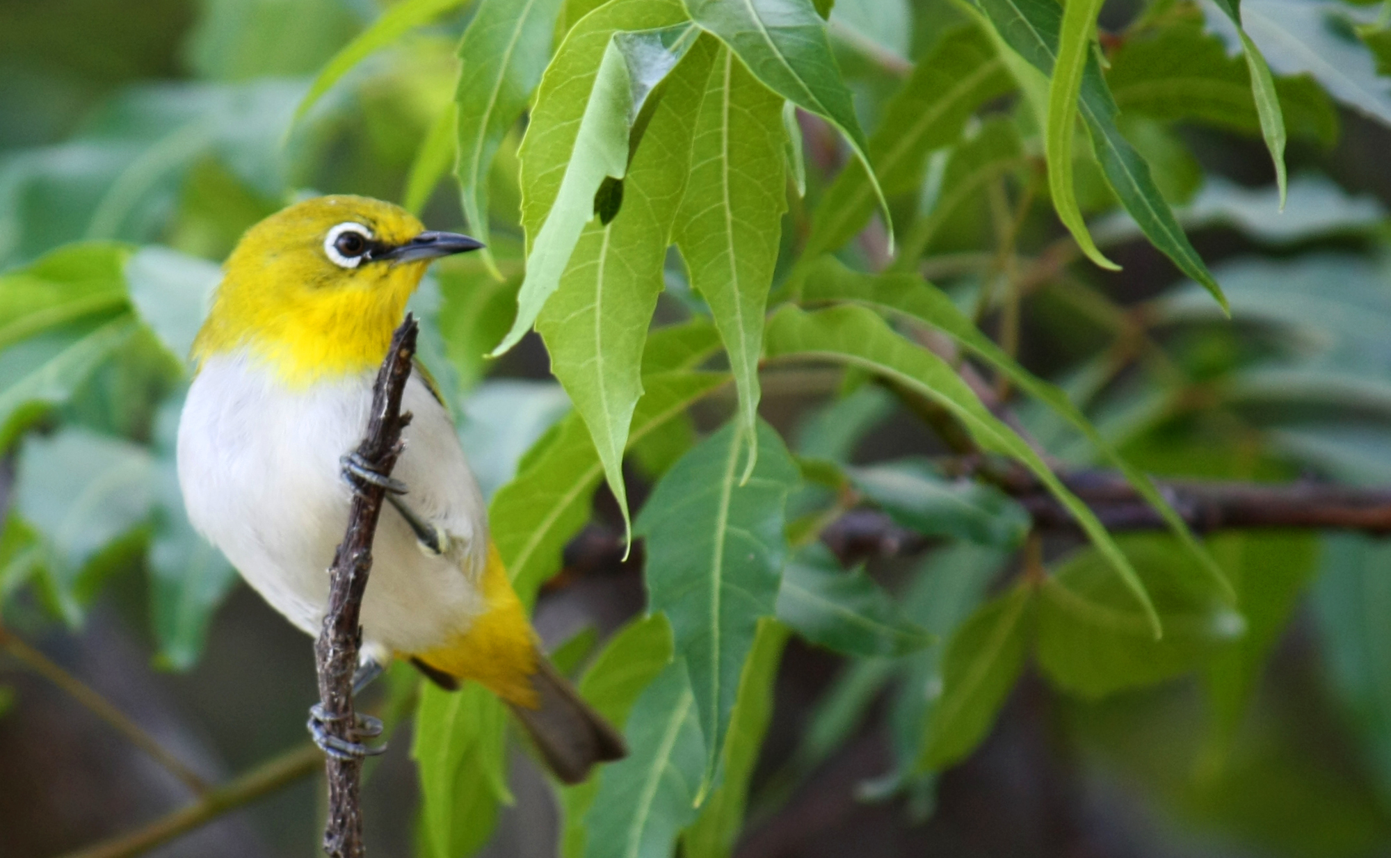 Oriental White-eye in Giritale, Polonnaruwa, Sri Lanka